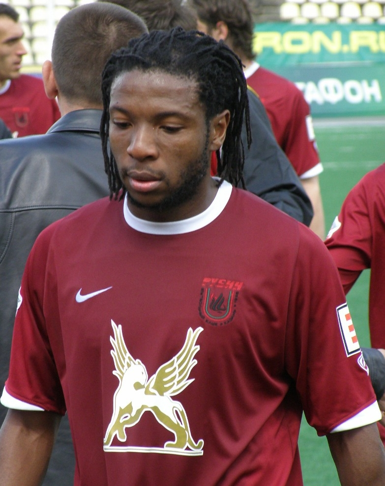 MacBeth Sibaya in action for FC Rubin